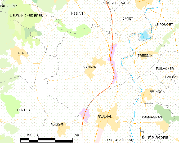 Map commune FR insee code 34013.png - Aspiran